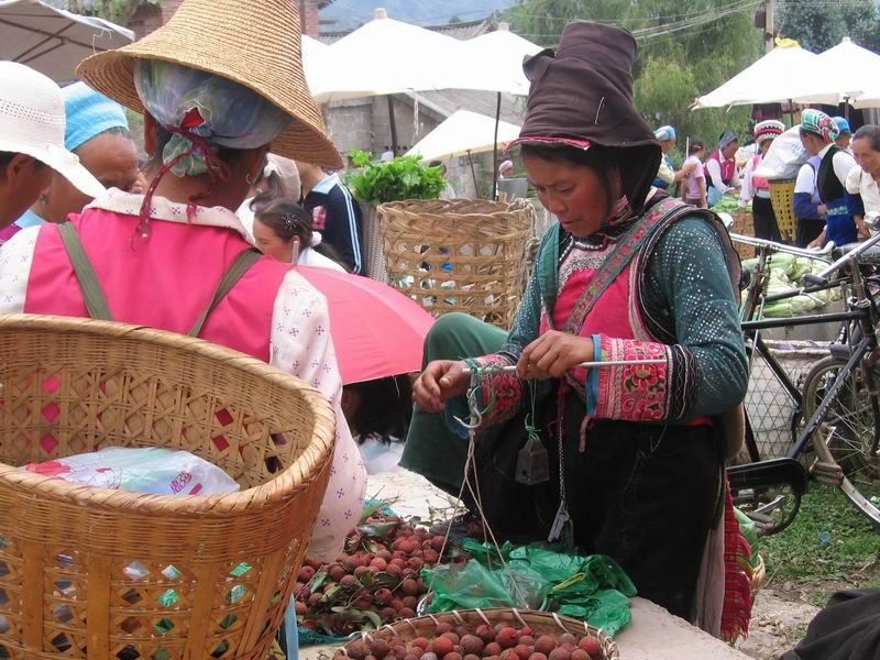 Market day in Shaping (沙平), near Erhai Lake, Yunnan, China. Photo taken by Ariel Steiner.